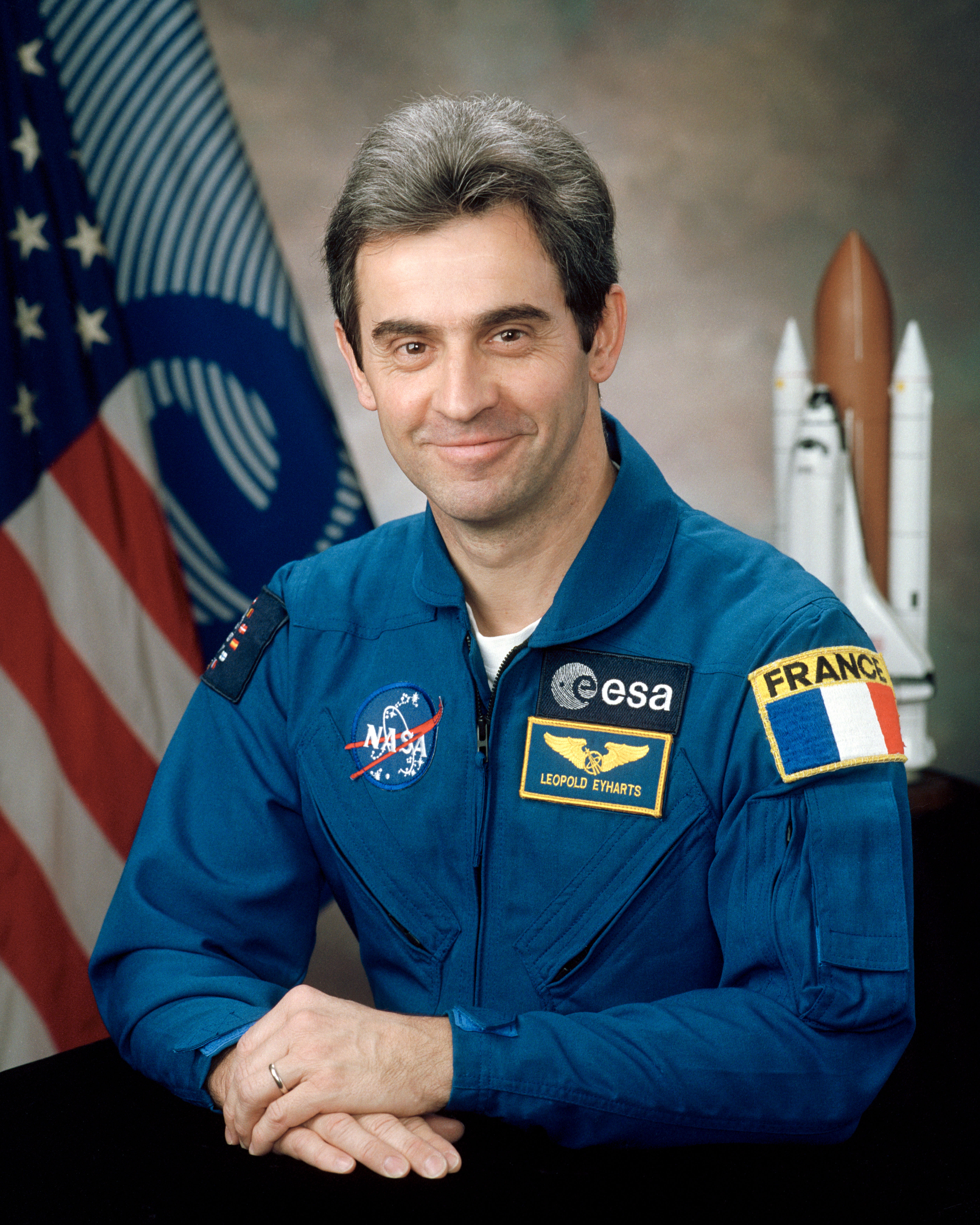 ESA astronaut Léopold Eyharts